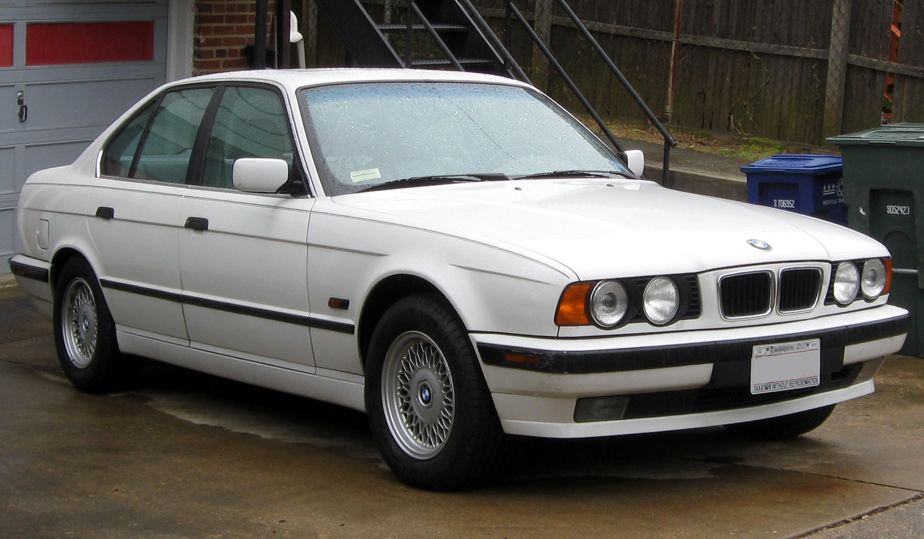 BMW 5-Series photographed in Washington, D.C., USA.